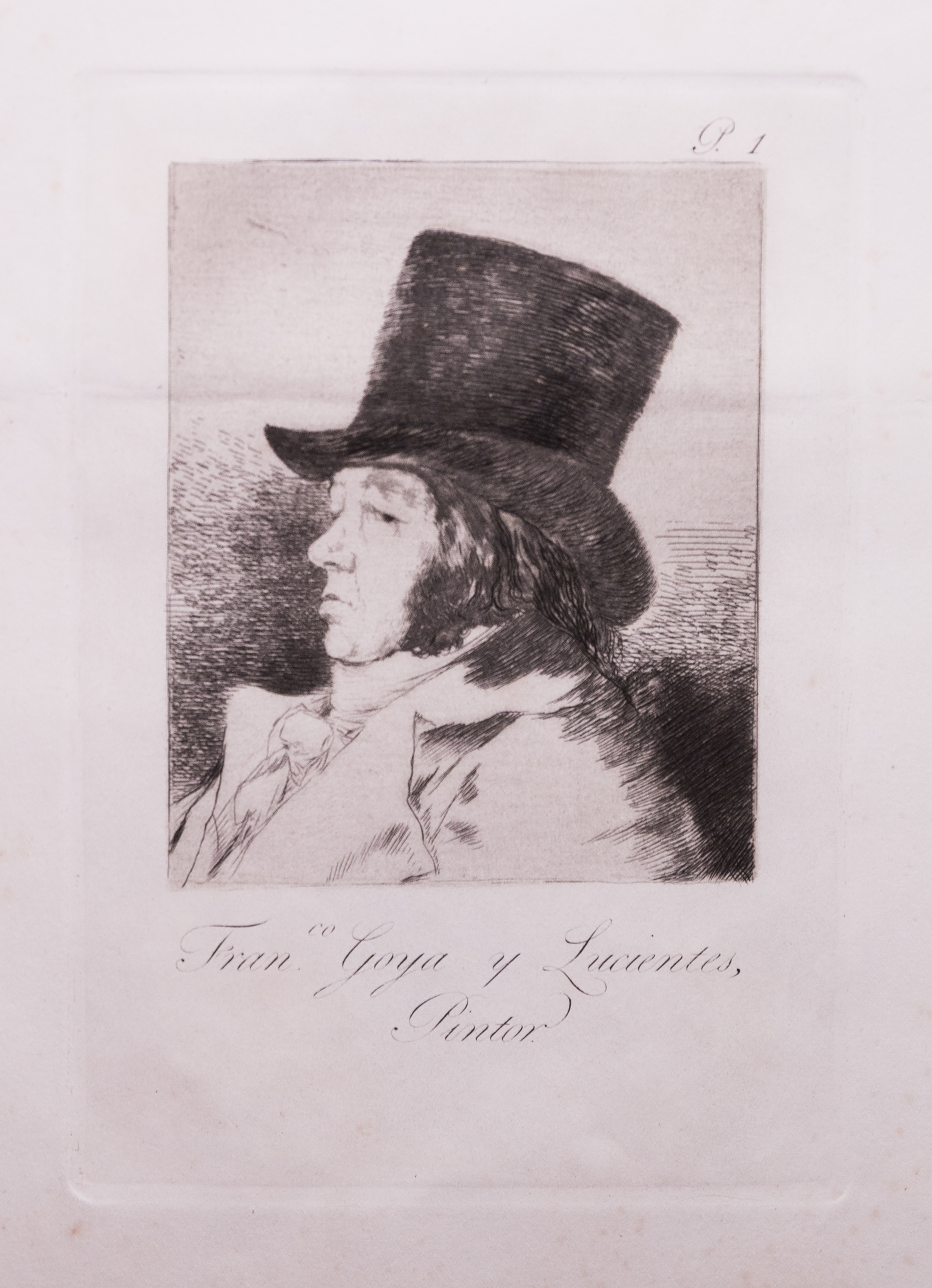 Francisco de Goya y Lucientes, painter, engraving by Francisco Goya, Fuendetodos, Zaragoza, Spain